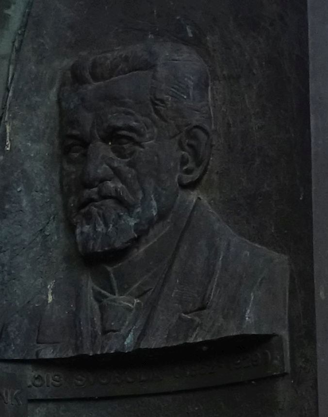 Prague-Troja, Czech Republic. Prague Zoo. A monument to Alois Svoboda and Quido Schwank, a relief of Alois Svoboda.